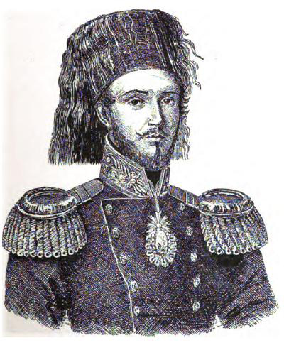 Taken from "A history of all nations from the earliest times" by John Henry Wright published by Lea Brothers & Co. in 1906 Philadelphia and New York. John Henry Wright died in 1908 more than 70 years ago.